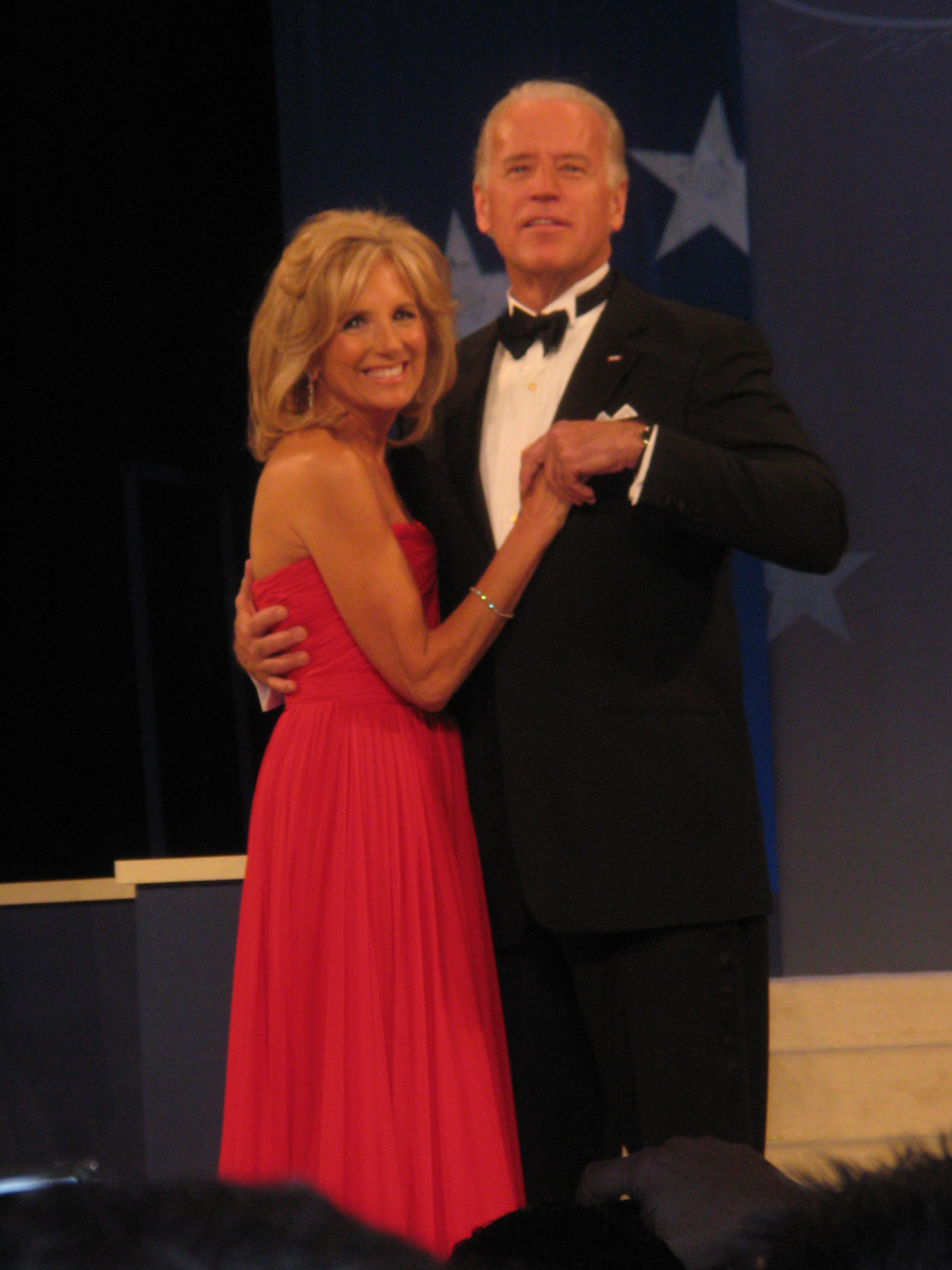 Joe and Jill Biden dance at Obama Home States Ball